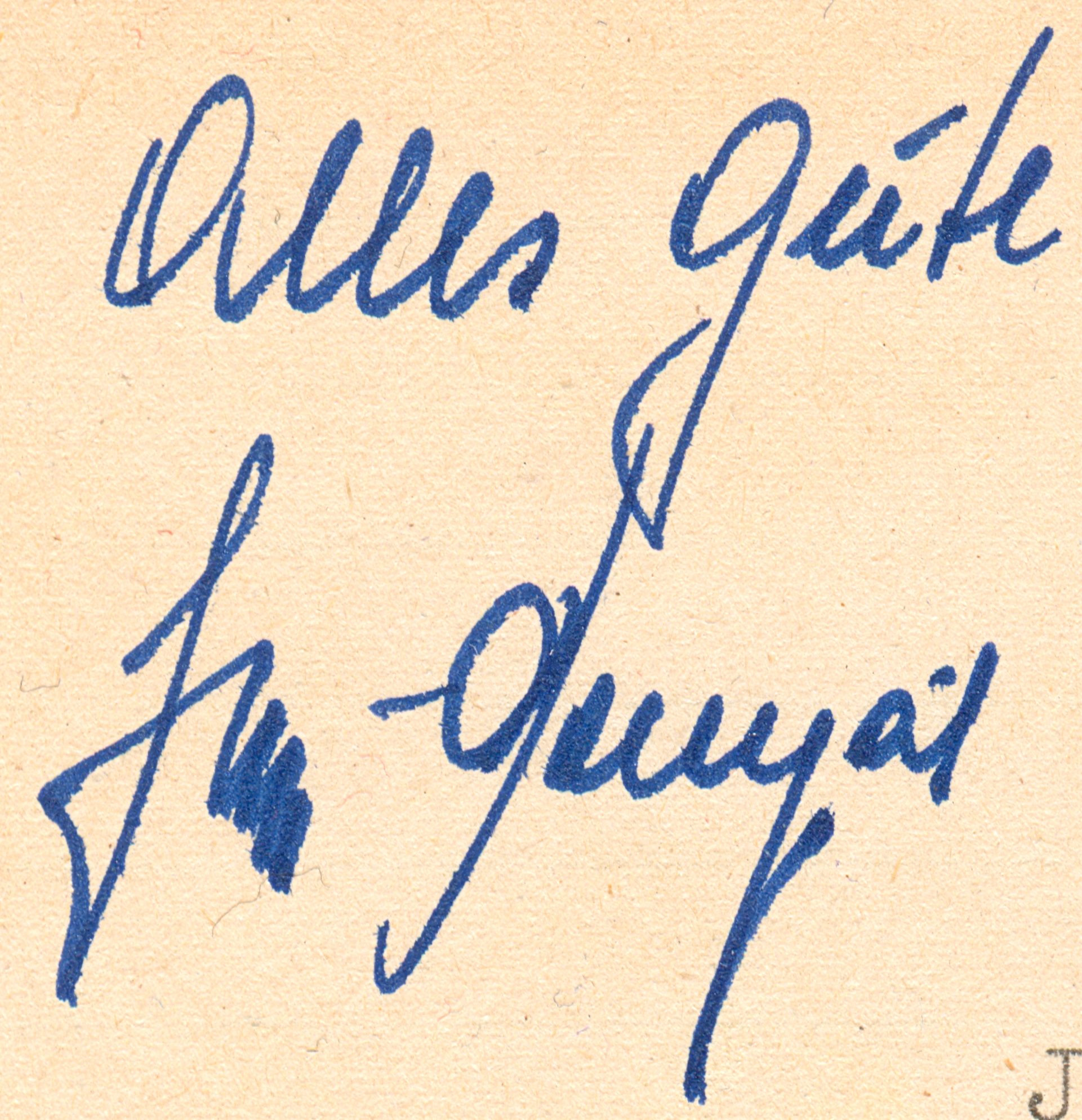 Autograph of German football player Jupp Posipal